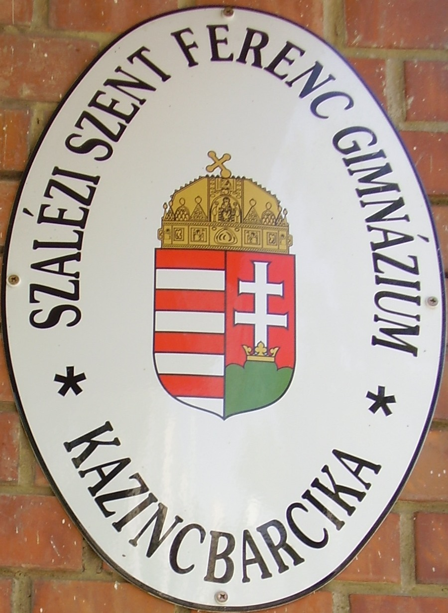 School name sign, Szalézi Szent Ferenc High School, Kazincbarcika